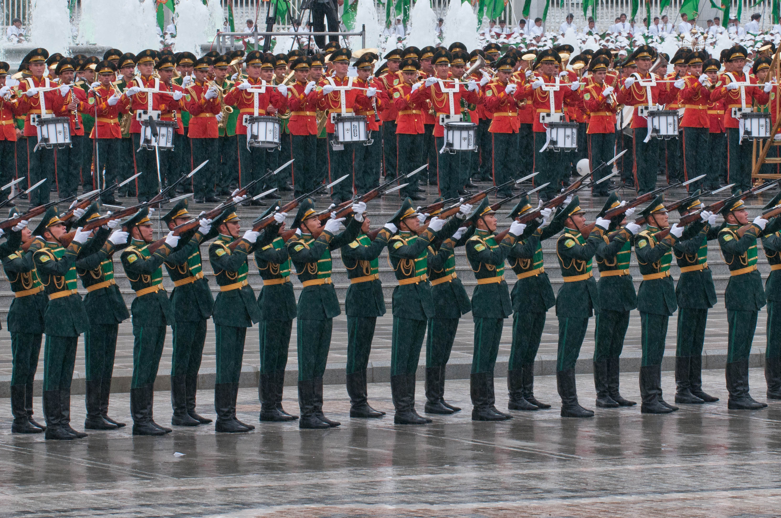 Celebrating the 20th year of independence in Turkmenistan